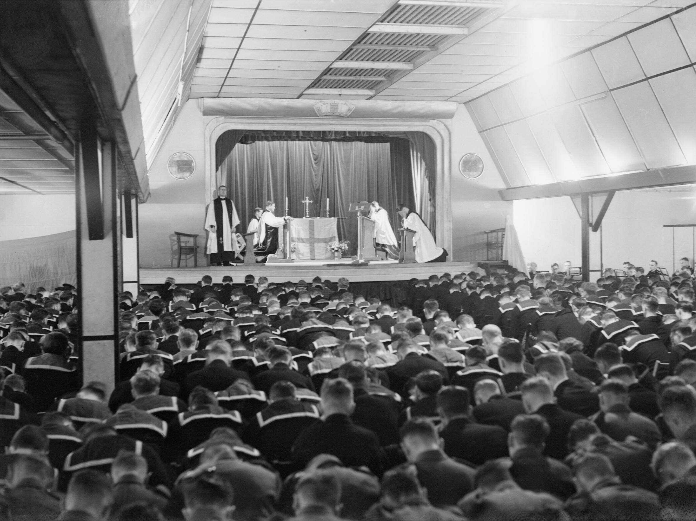 The Archbishop of Canterbury conducts a service in the cinema at Flotta on Orkney during his visit to the Home Fleet at Scapa Flow, 6 September 1942. A general view of the service carried out by the Archbishop of Canterbury in the cinema at Flotta on The Orkneys during his visit to the Home Fleet at Scapa Flow.